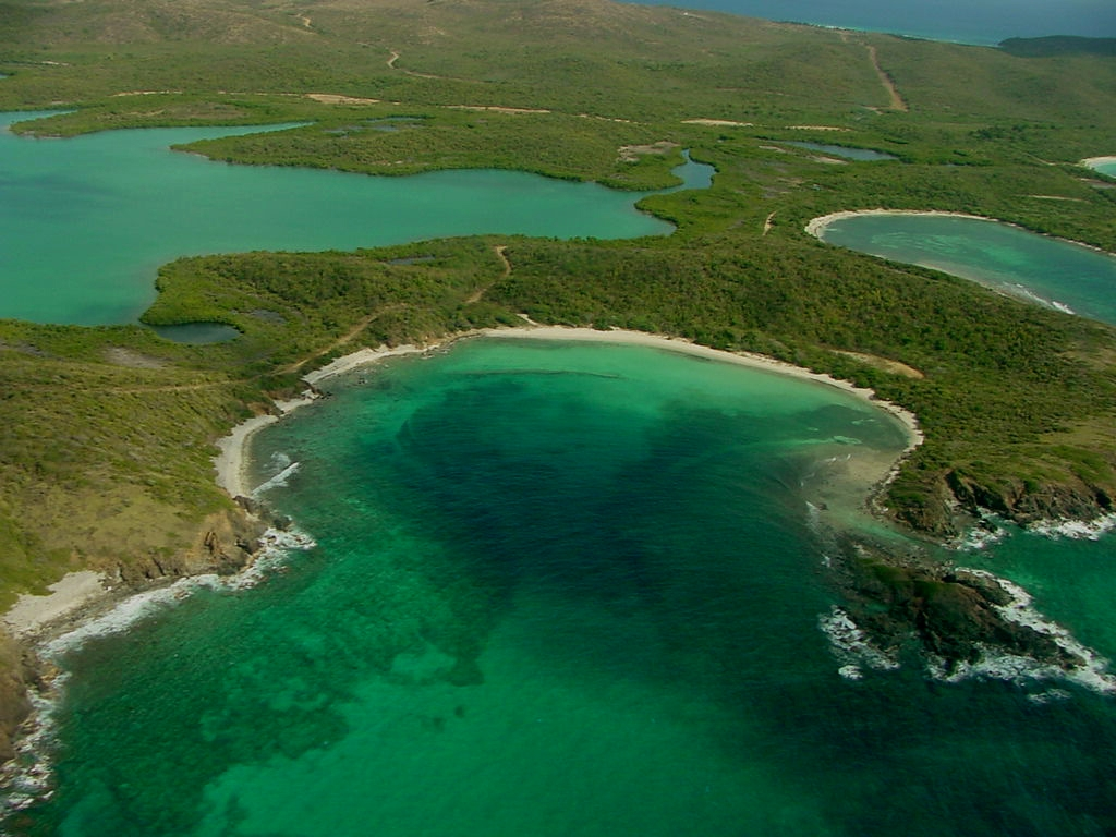 The secluded and undeveloped beaches of Vieques National Wildlife Refuge off the coast of Puerto Rico have been called some of the most beautiful in the world. (Maritza Vargas/USFWS)